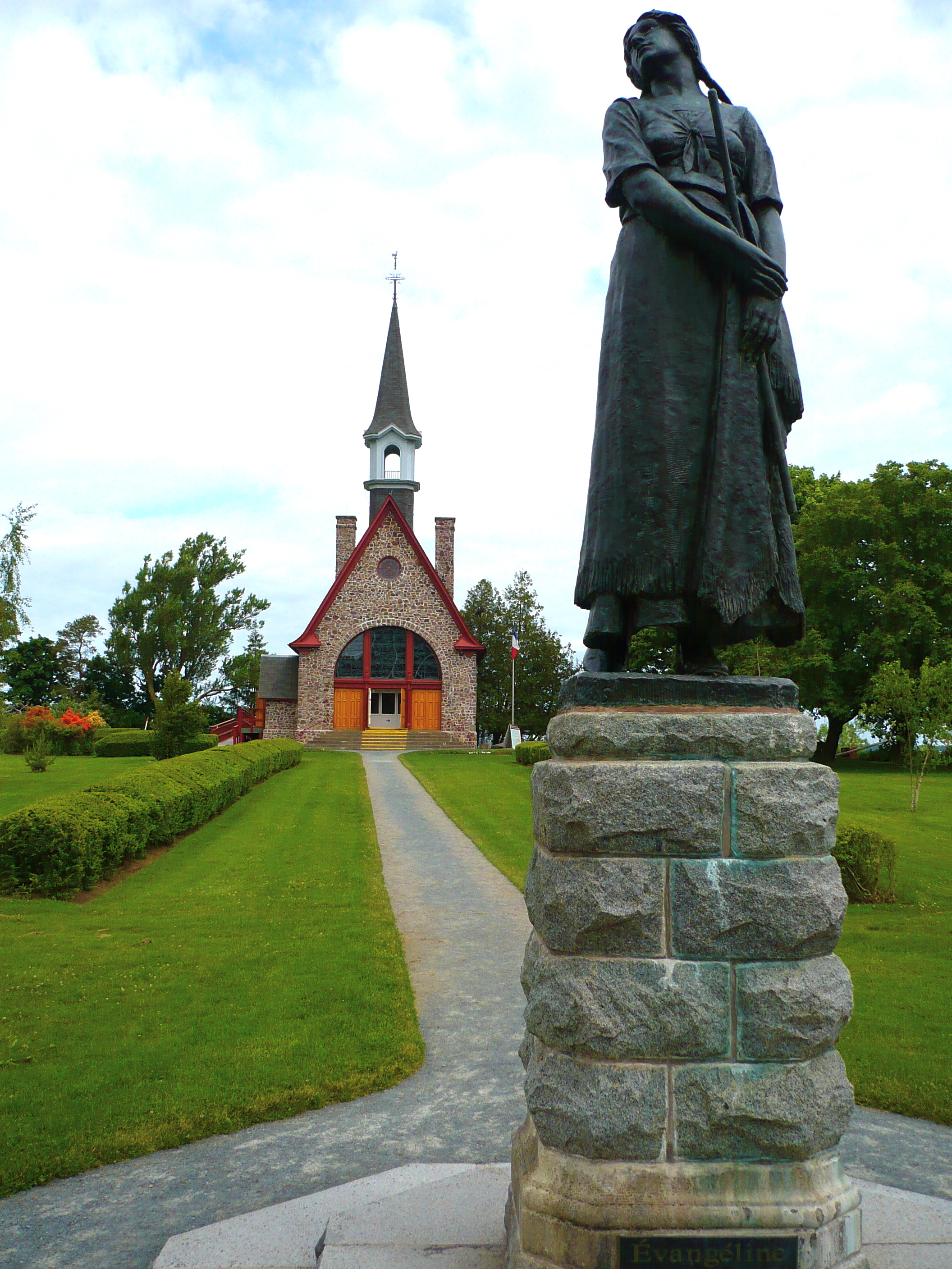 A church like this one, commemorates the beginning of the Acadian expulsion where the men were gathered to hear their fate.